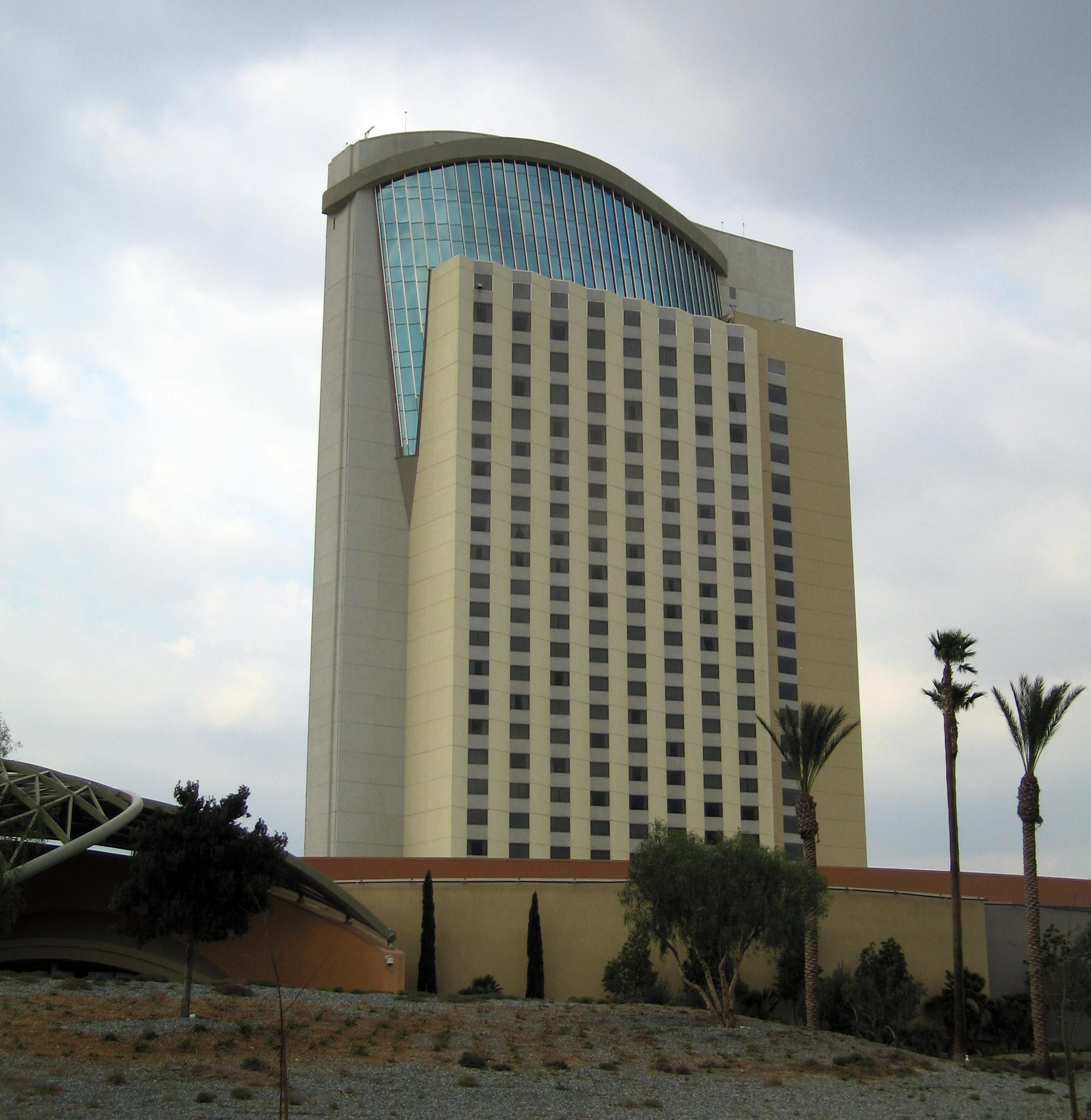 Morongo Casino, Cabazon, Riverside County, California. Photo taken 23 Mar 2007 by Takwish with a Canon PowerShot S70.